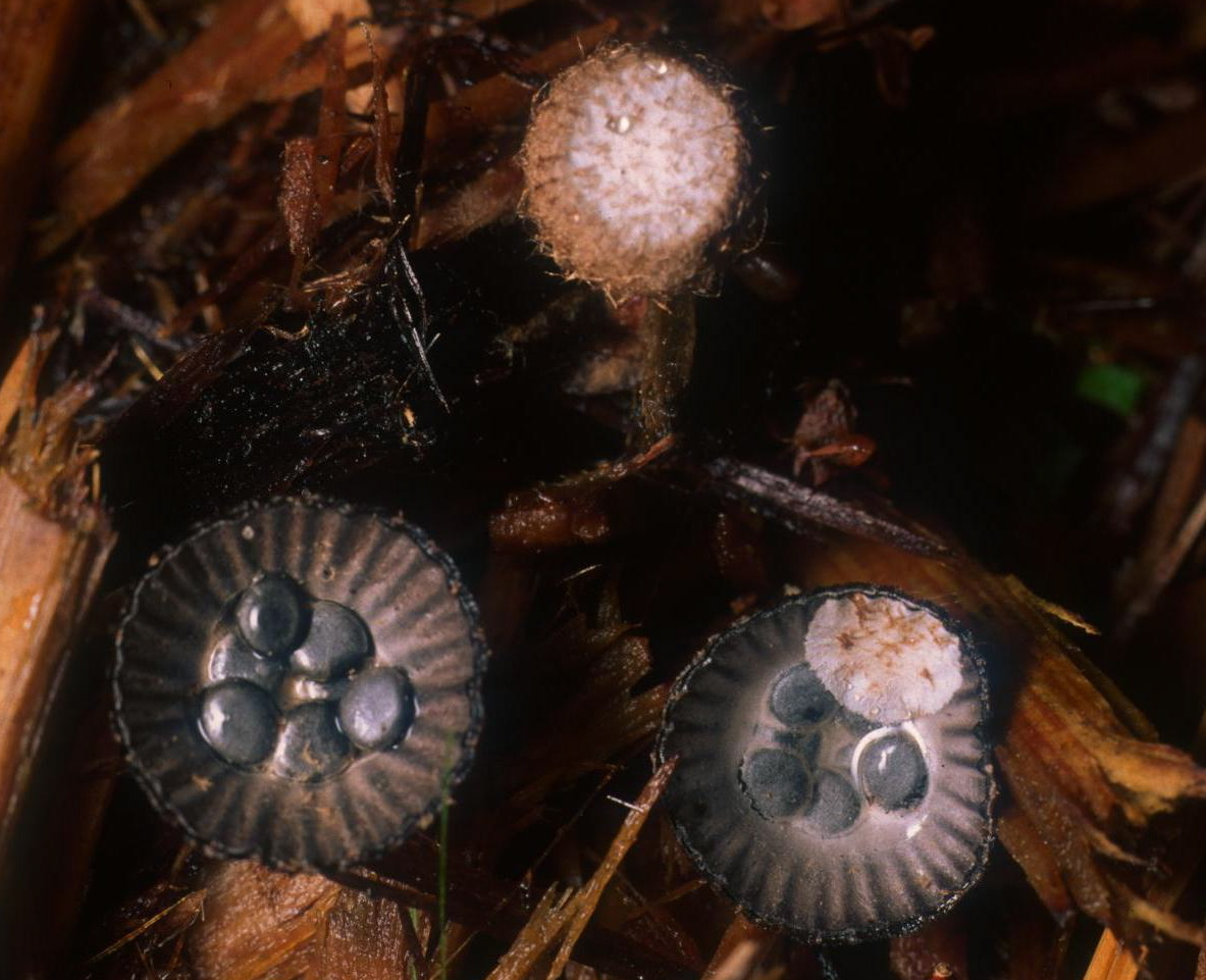 The bird's nest fungus Cyathus poppignii Tul. & C. Tul. Specimens found in Orlando, Florida, USA. Original photo was cropped to emphasize the periodioles.